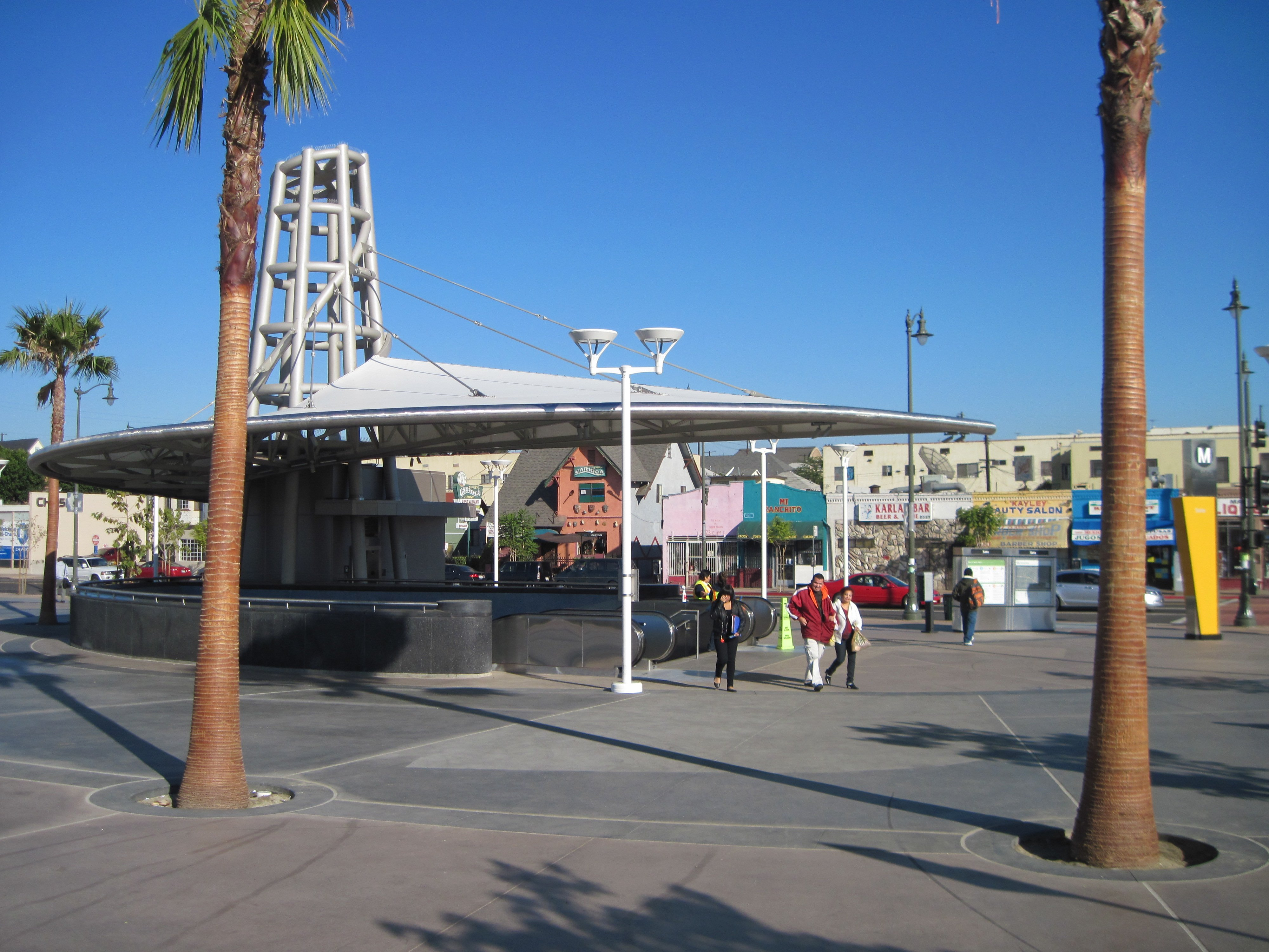 The Los Angeles County Metropolitan Transportation Authority's Soto station, serving the Metro Gold Line in Los Angeles, California, USA.